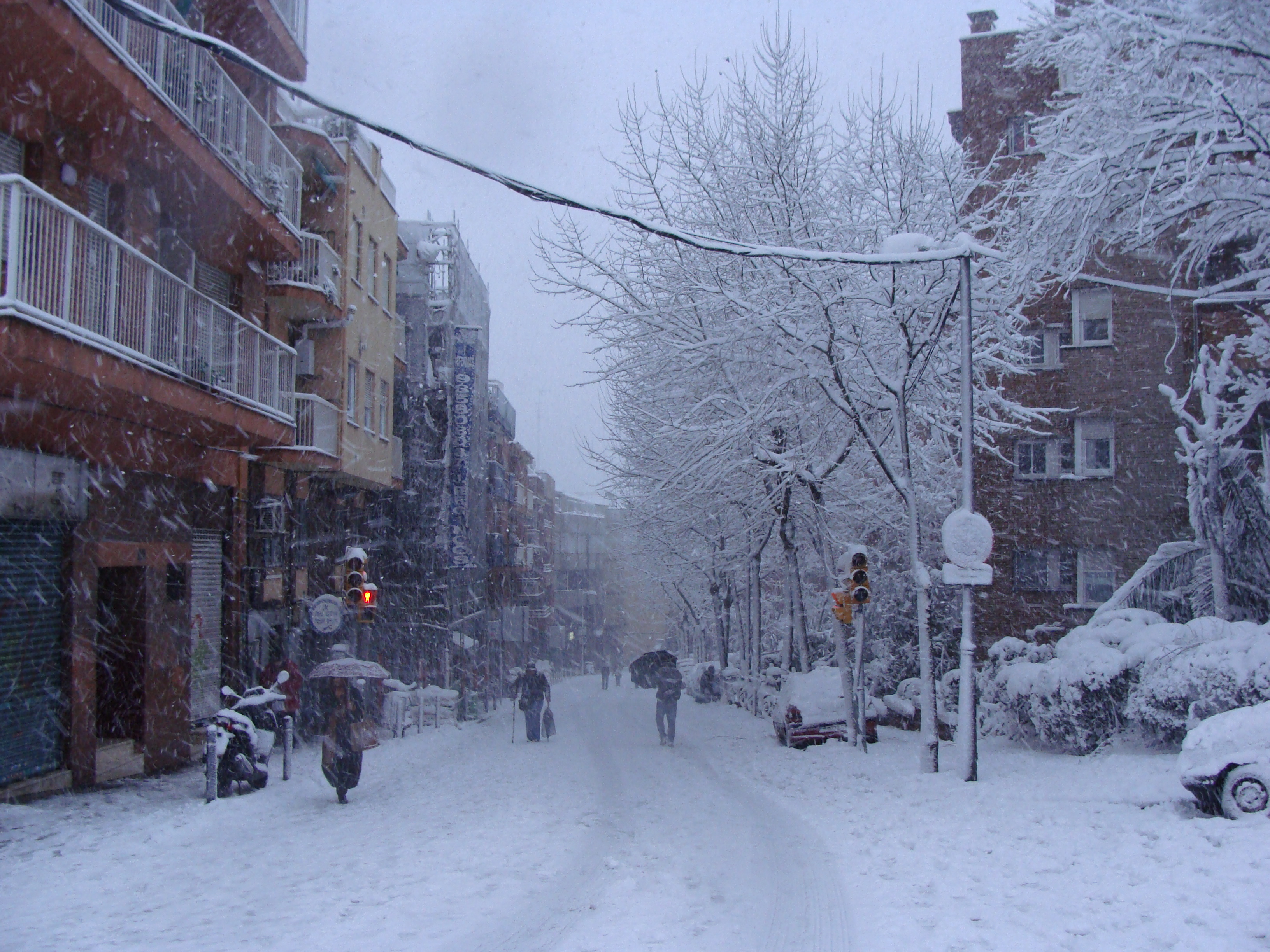 Snowed Passeig Mare de Déu del Coll (El Coll, Gràcia District, Barcelona). 8th march, 2010.